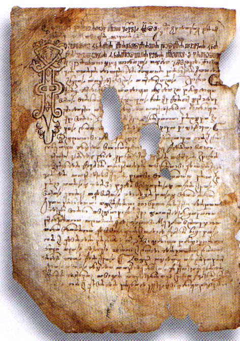 Codecs of Vinodol